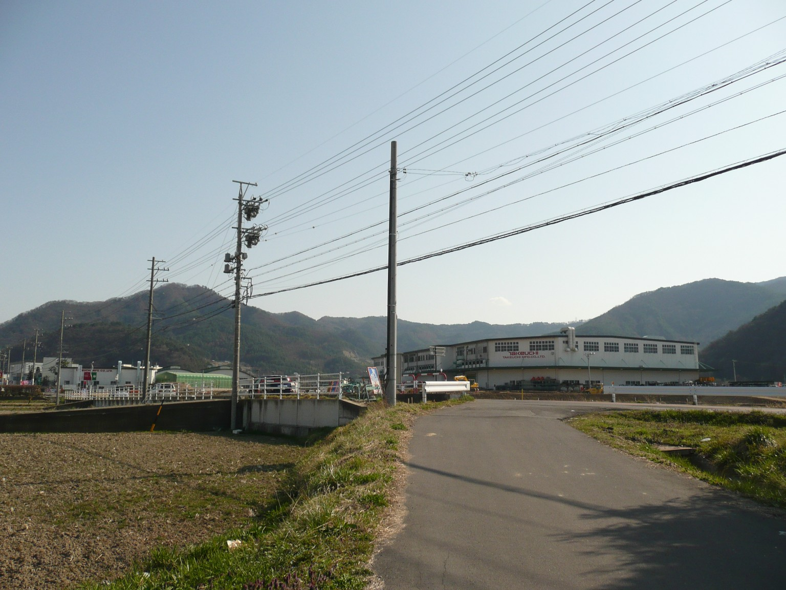 竹内製作所 本社周辺（左側が本社）。長野県埴科郡坂城町。The head office of Takeuchi Mfg. Co., Ltd. in Sakaki, Nagano, Japan.